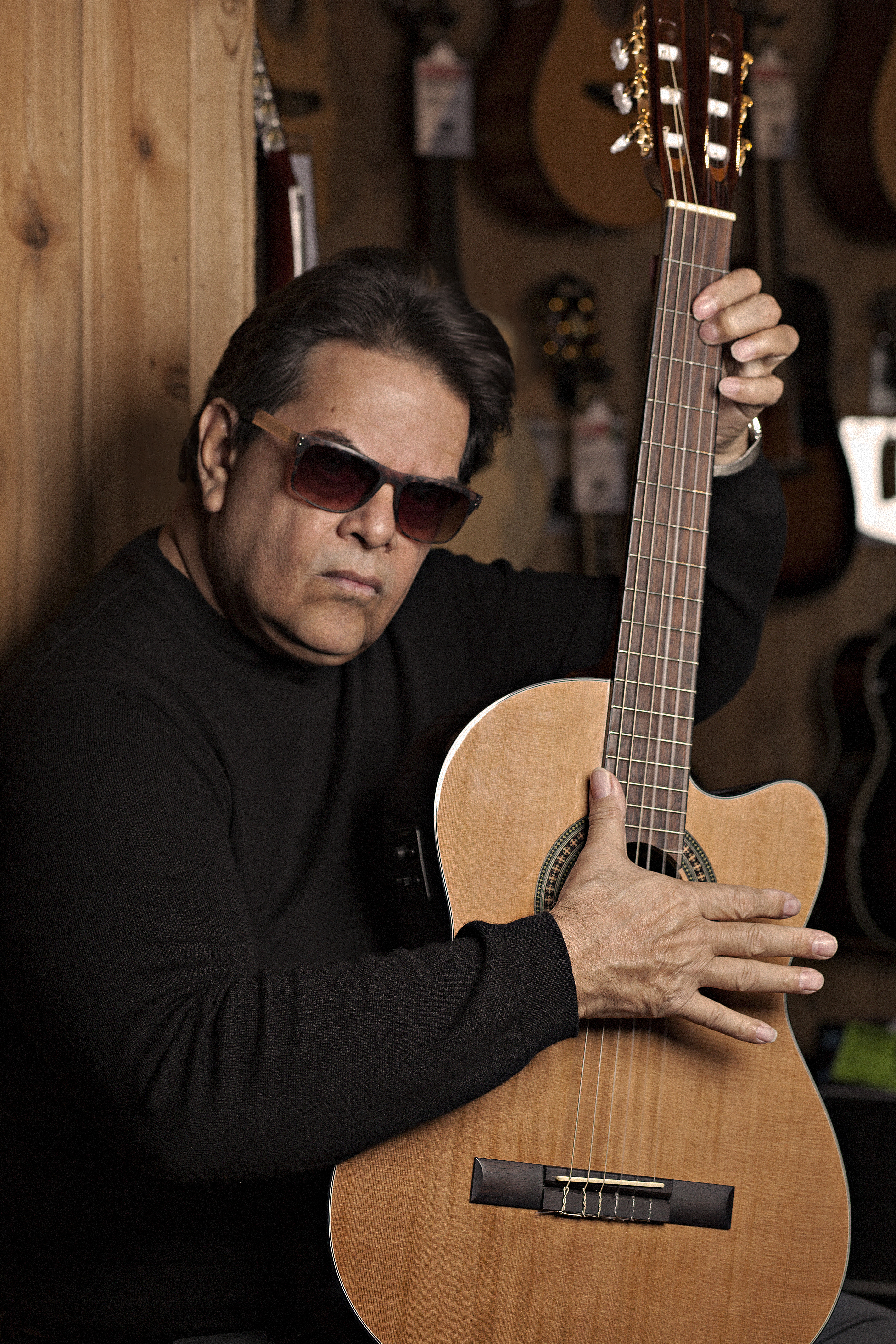 Photo of Alfonso Lovo with acoustic guitar